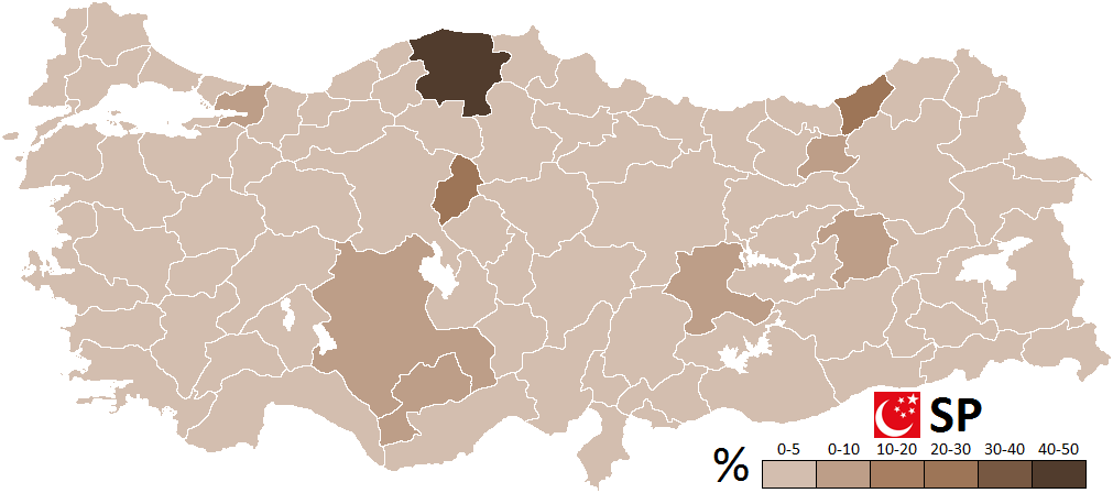 Votes gained by the SP by province in the Turkish local elections of 2014